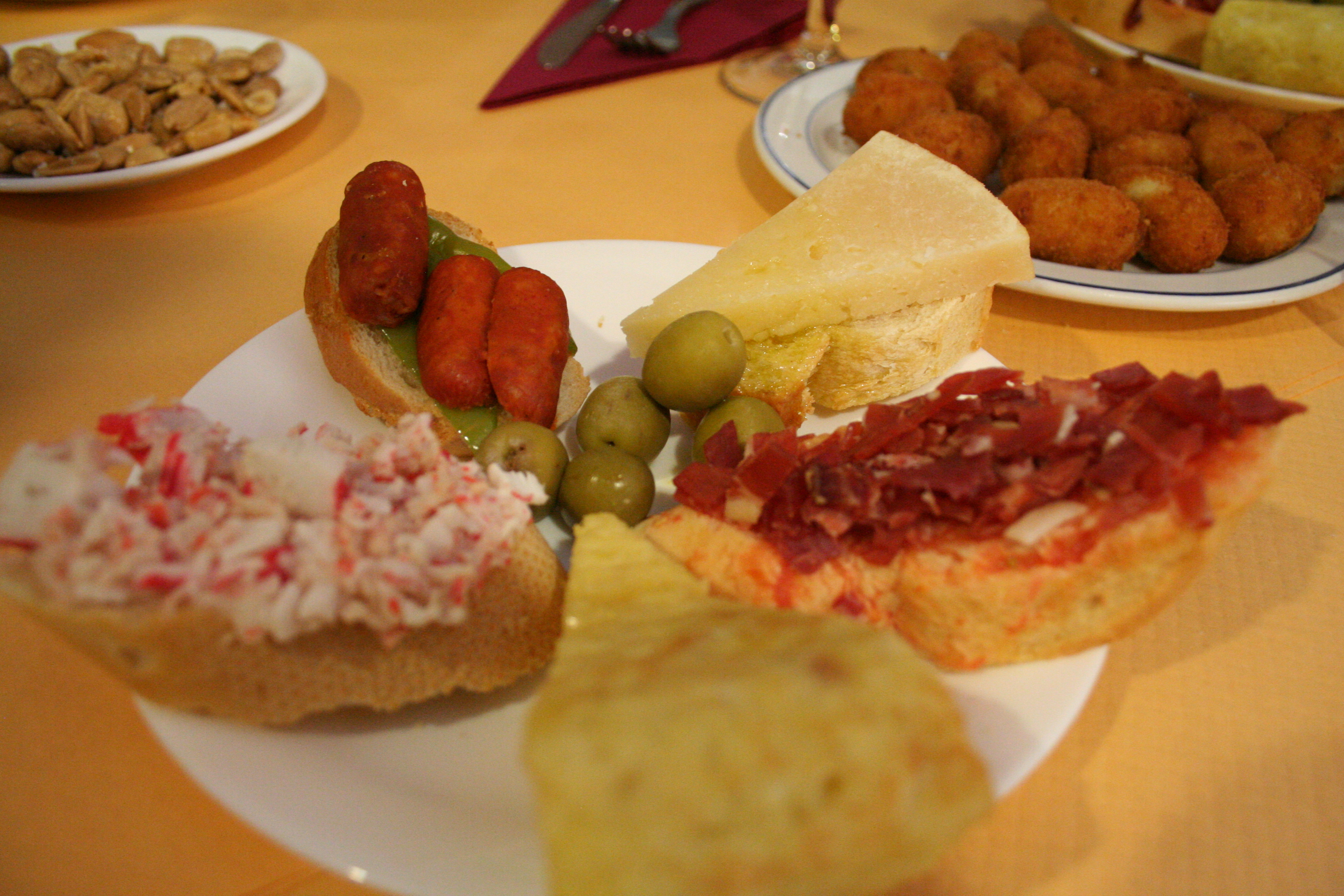 Typical tapas of Martos (Jaén), Spain.